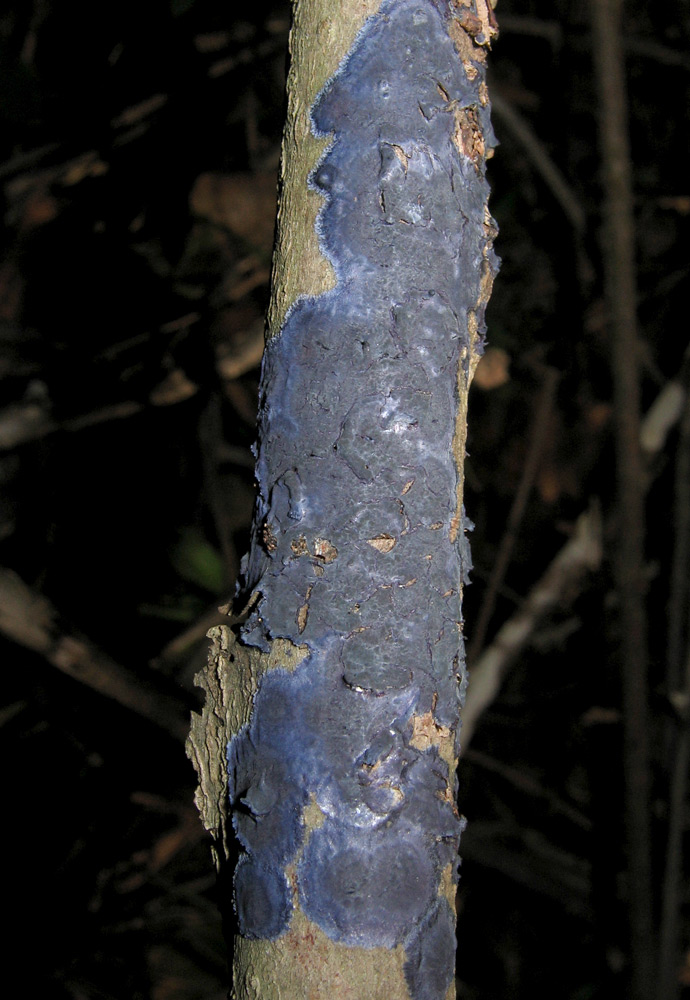 Pulcherricium caeruleum (44907) syn. Terana caerulea (Lam.) Kuntze 1891